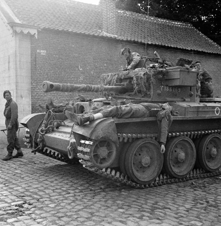 The British Army in North-west Europe 1944-45 Wounded German soldiers being ferried to an aid post on the hull of a Cromwell tank of 2nd Welsh Guards, 3 September 1944. They were captured after the Guards shot up a German convoy that blundered into their path, 20km from Brussels.